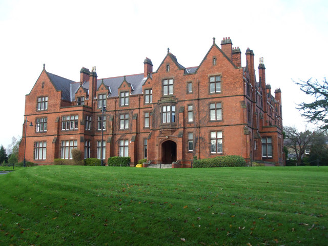 Riddel Hall, Stranmillis, Belfast More at